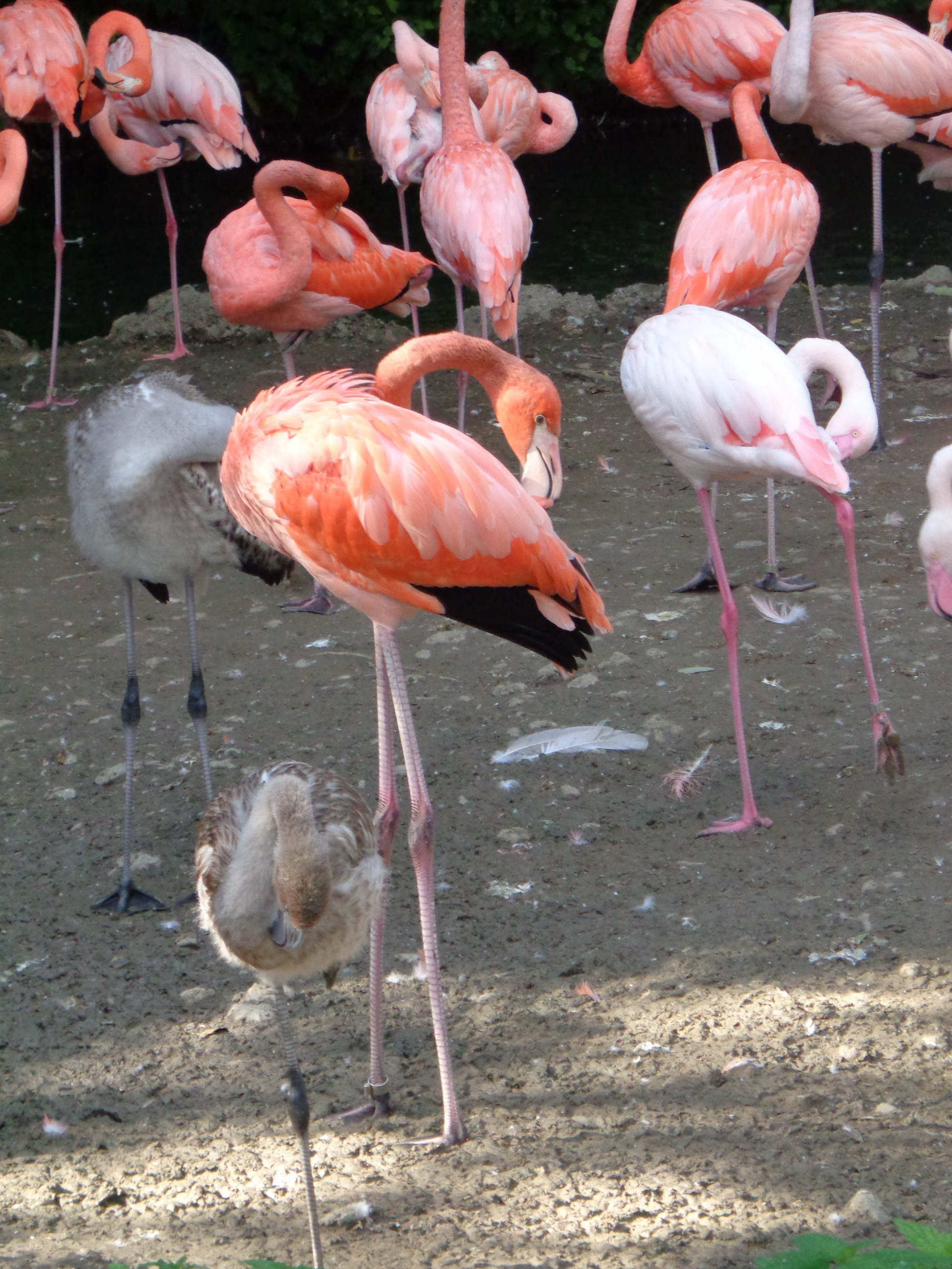 Flamingos in the Hellabrunn Zoo, Munich, Germany